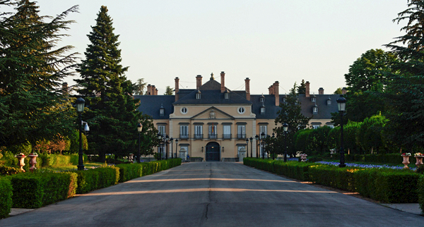 Palacio; Madrid, Comunidad de Madrid, Madrid, Spain; ; ref: PM_080648_E_El_Pardo; Palacio Real de El Pardo; Photographer: Paul M.R. Maeyaert; © Paul M.R. Maeyaert; ; Cultural heritage; Cultural heritage/garden park; Cultural heritage/Palace; Europeana